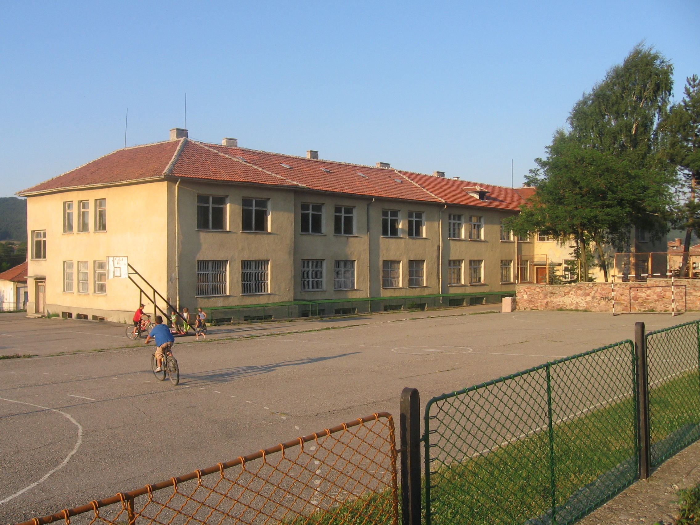 The school in village Gabra, Bulgaria